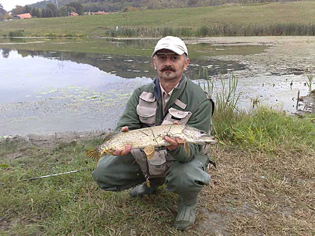 Fishing on the lake